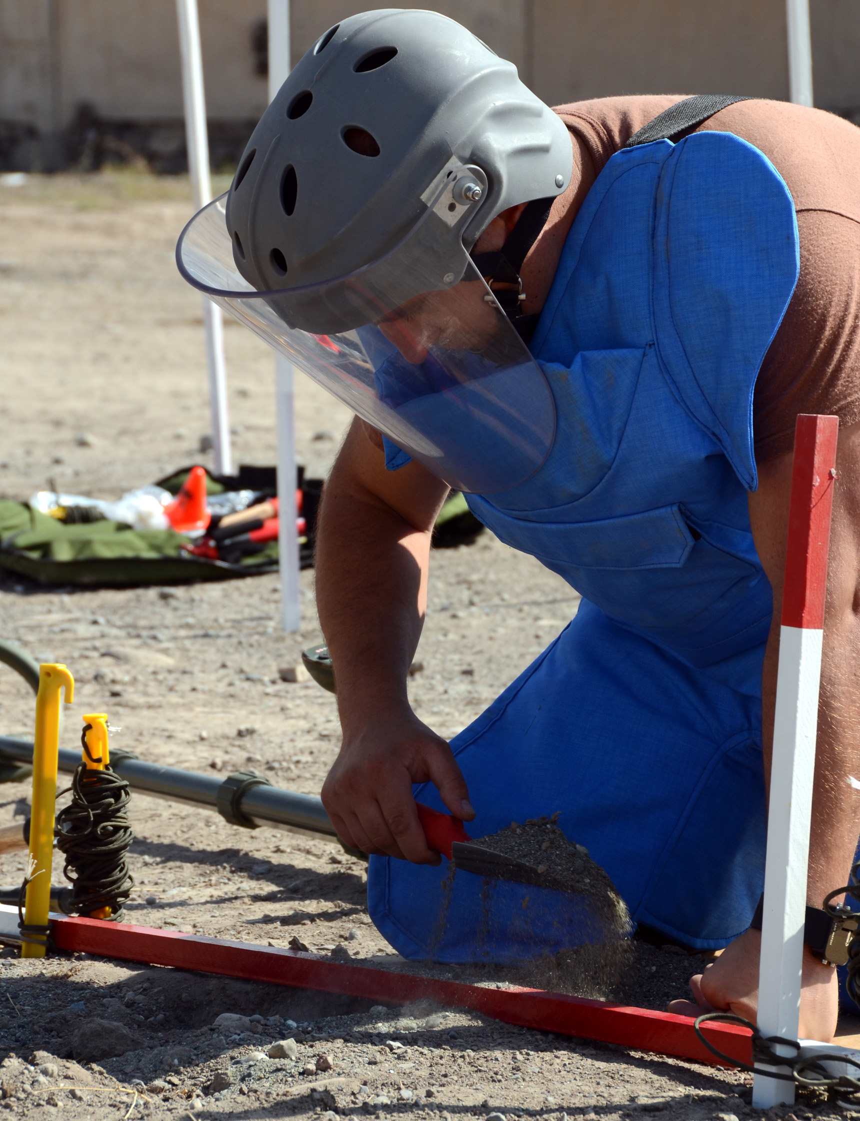 Junior Sgt. Tigran Nikoghosyan, of the Engineering Company of the Armenian Peacekeeping Brigade digs around a suspected trip-wire during a simulated one-man demining drill as part of a training course taught by soldiers of the Kansas National Guard and a civilian representative from the U.S. Humanitarian Demining Training Center. Kansas National guardsmen and the HDTC representative are instructing Armenian peacekeepers and engineer battalions on international demining standards as part of the Humanitarian Mine Action program and will assist the Armenian government in developing a national standard operating procedure for demining.